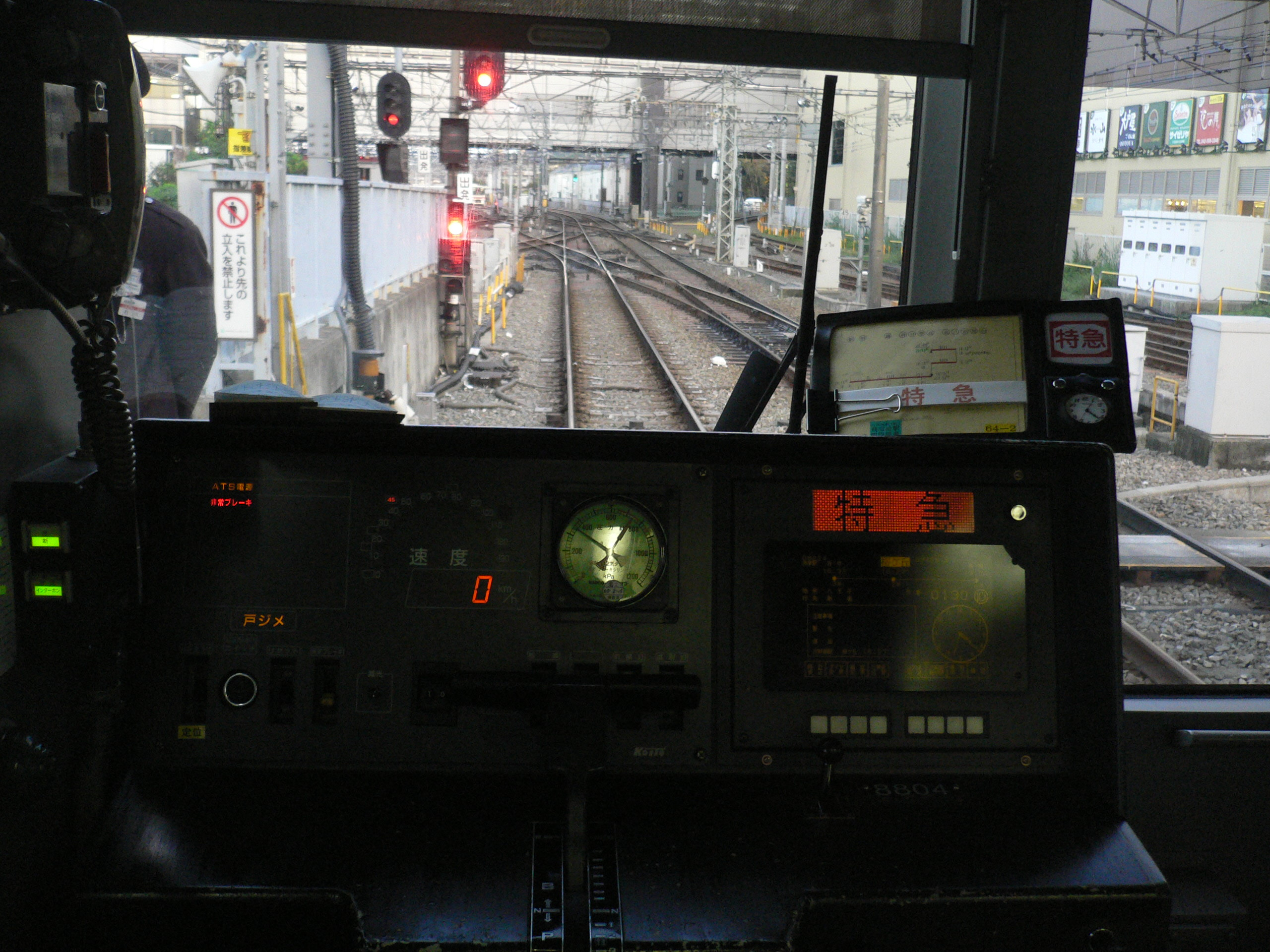 Keiō Line (Keio Line), Tokyo M.